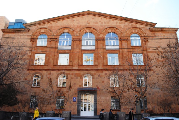 Charents school building